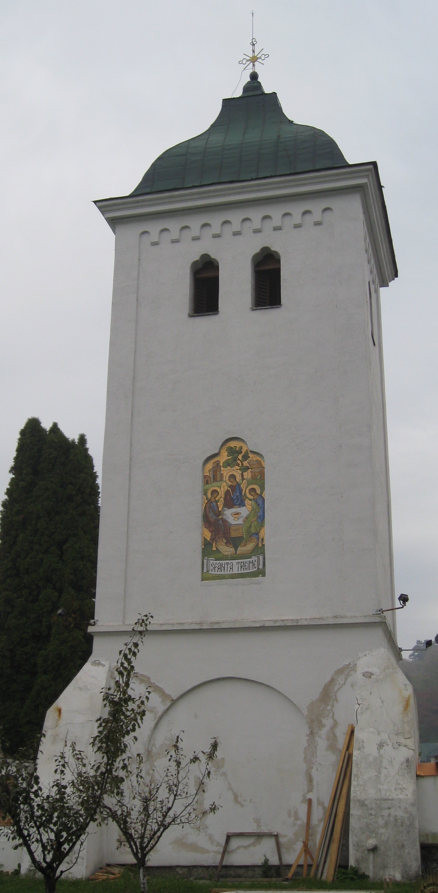 Belltower, Râmnicu Vâlcea, Romania 07 Aceasta este o imagine cu un sit arheologic din România, clasificat cu numărul 167482.15.04.